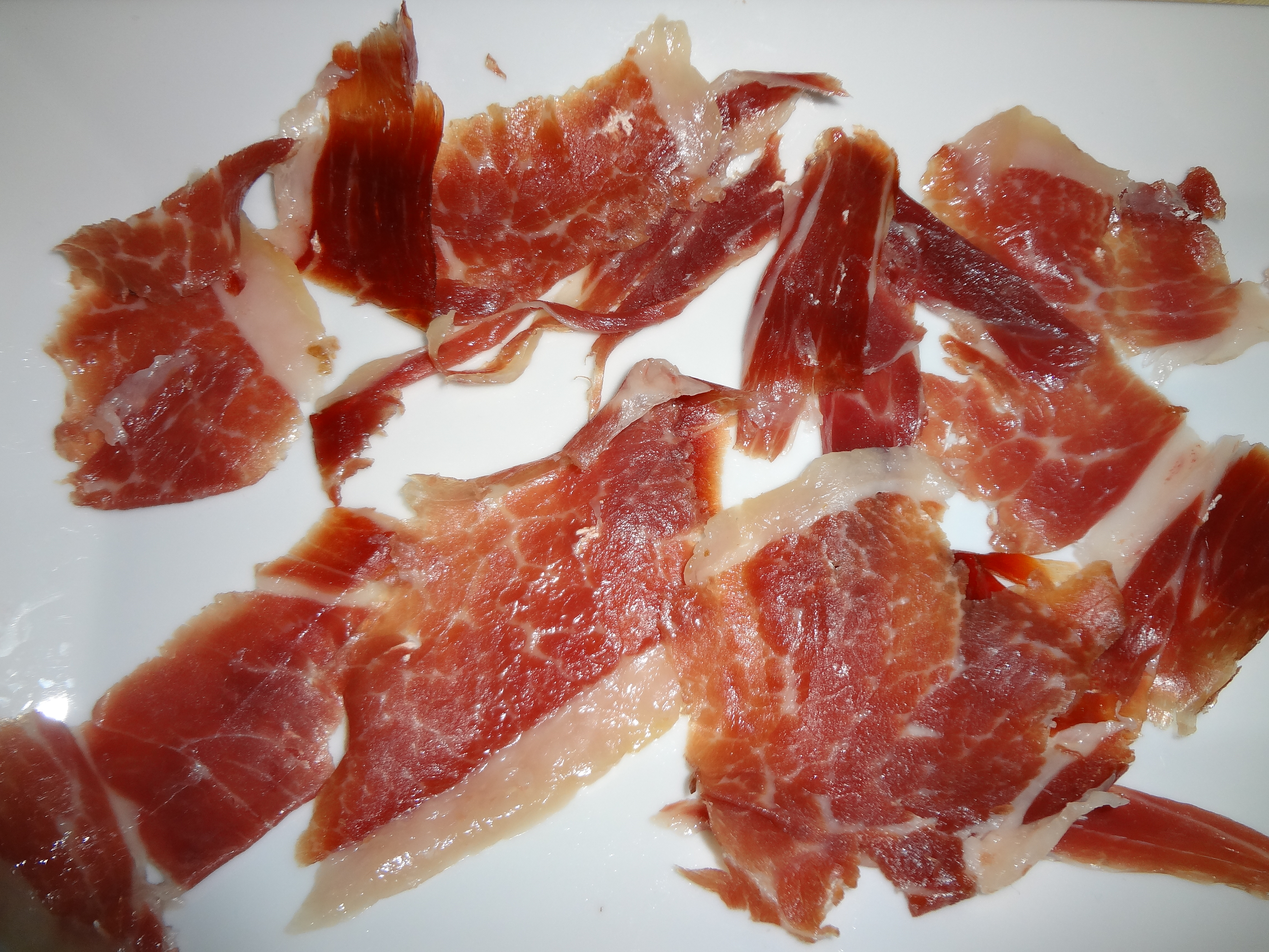 a plate of Jamón serrano in Madrid, Spain Jamón serrano is a type of jamón (dry-cured Spanish ham), which is generally served in thin slices